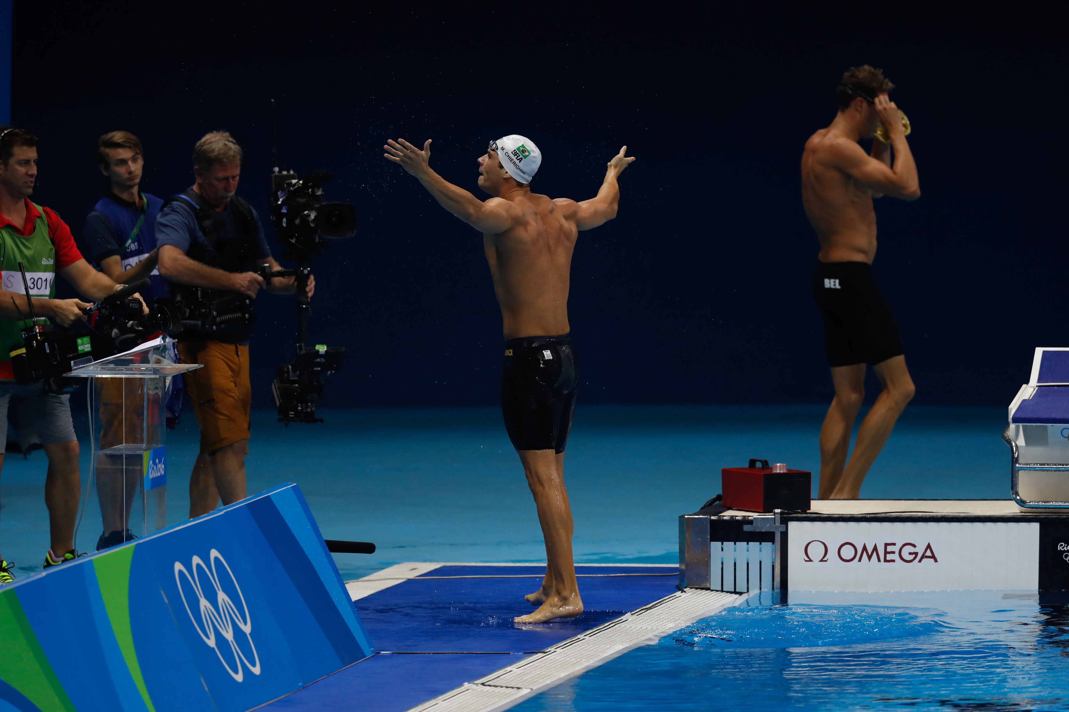 Rio de Janeiro - Brasileiro Marcelo Chierighini se classifica para a final dos 100m nado livre nos Jogos Rio 2016. (Fernando Frazão/Agência Brasil)